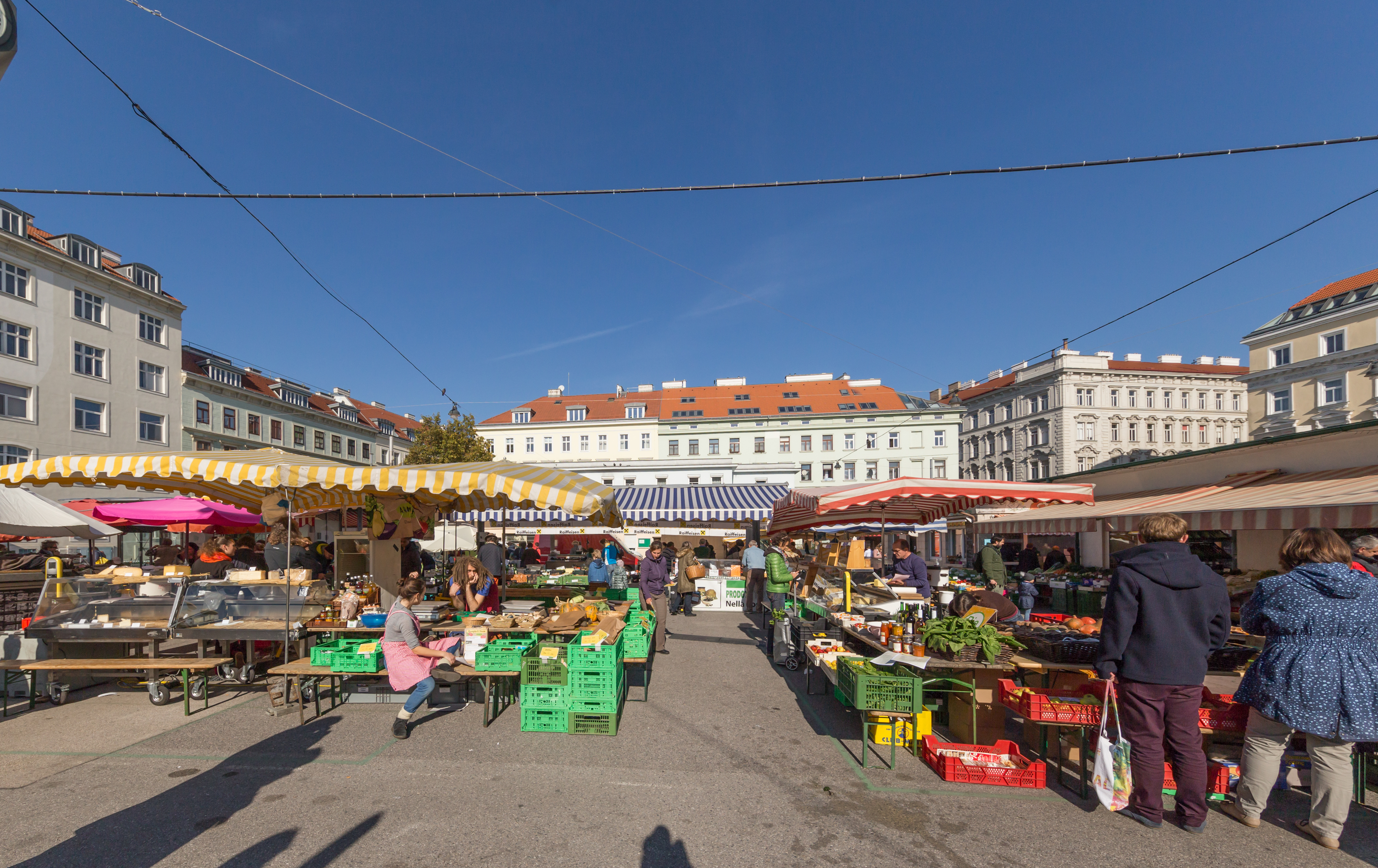 Farmersmarket on a saturday at the Karmelitermarkt, Vienna. Leopoldstadt